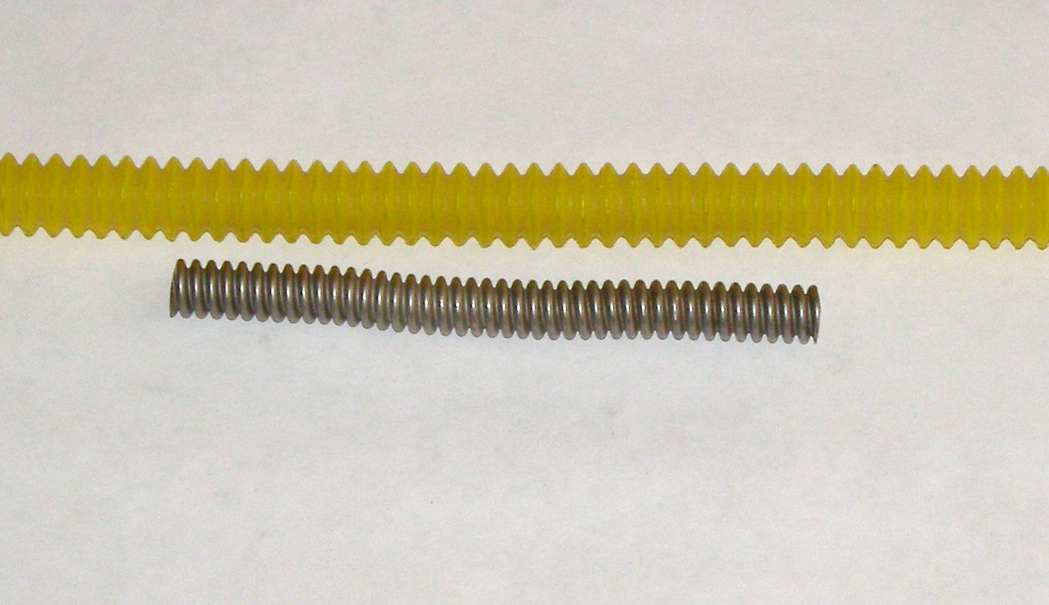 Sound from corrugated pipe